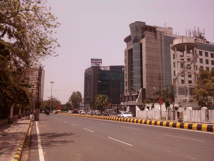 business center in Lucknow